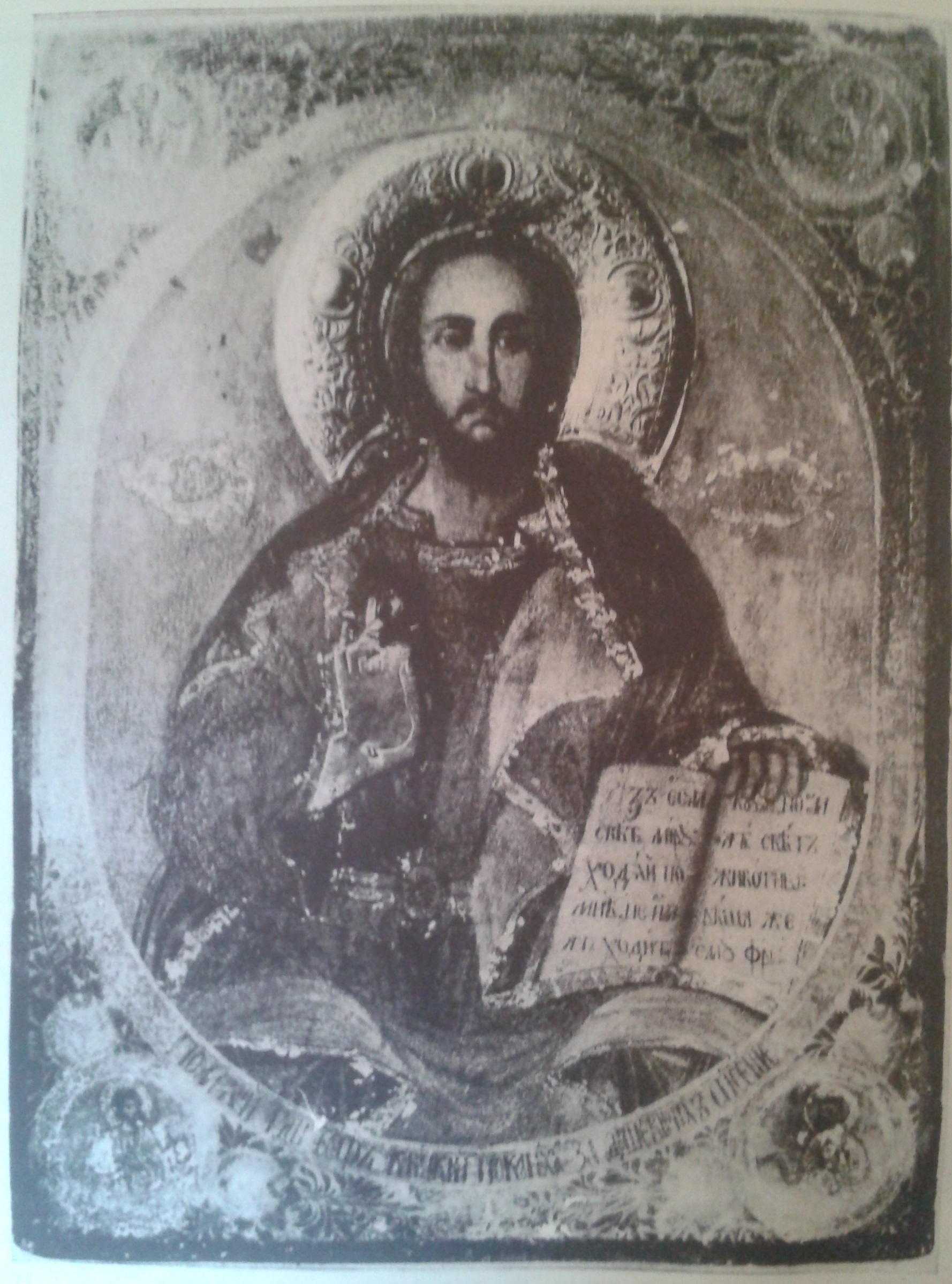 Christ Icon by Vasil from Strumitsa in Saint Menas Church in Kyustendil 1860